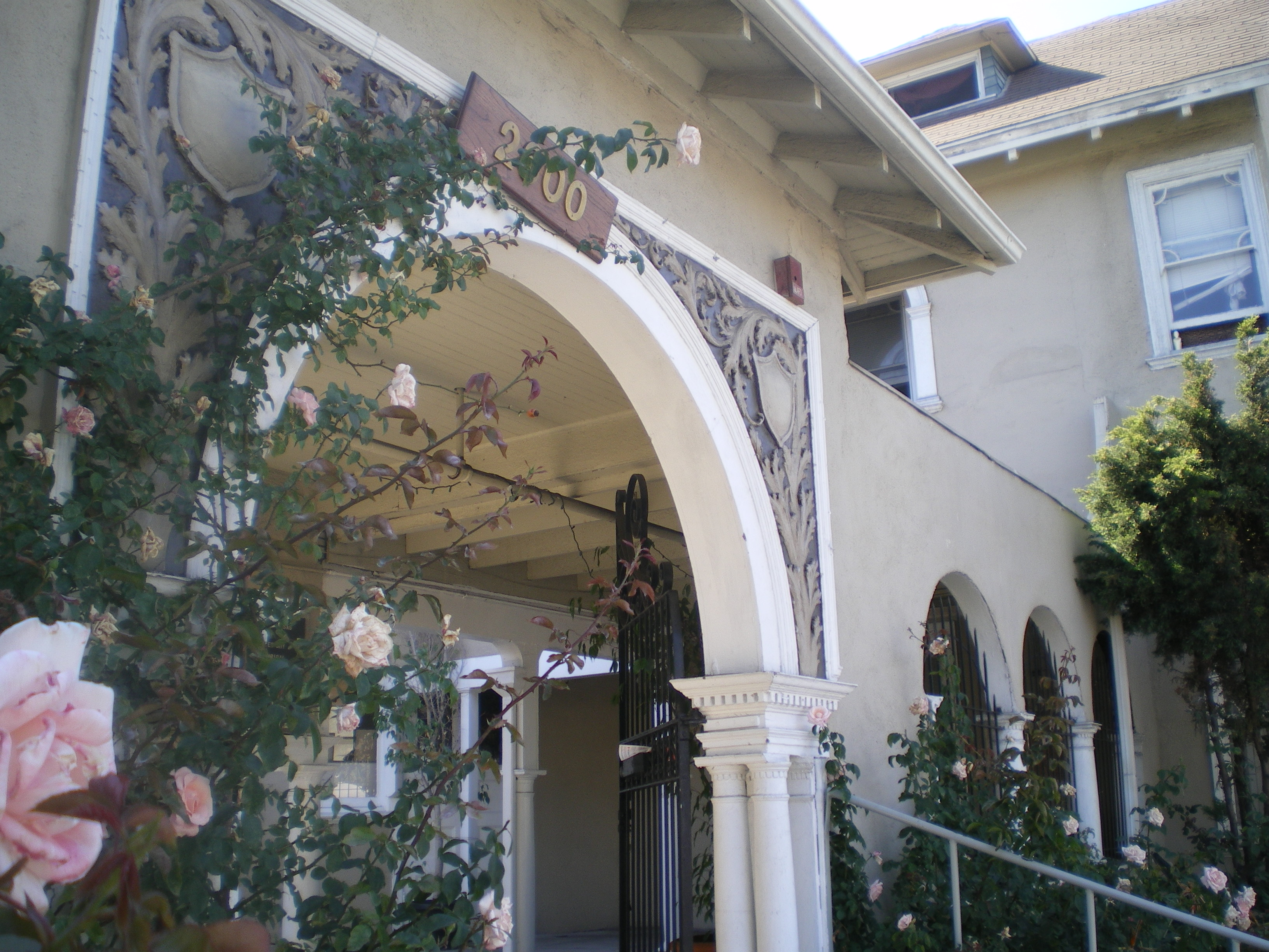 Casa de Rosas(front entrance), 2600 S. Hoover St., Los Angeles, California